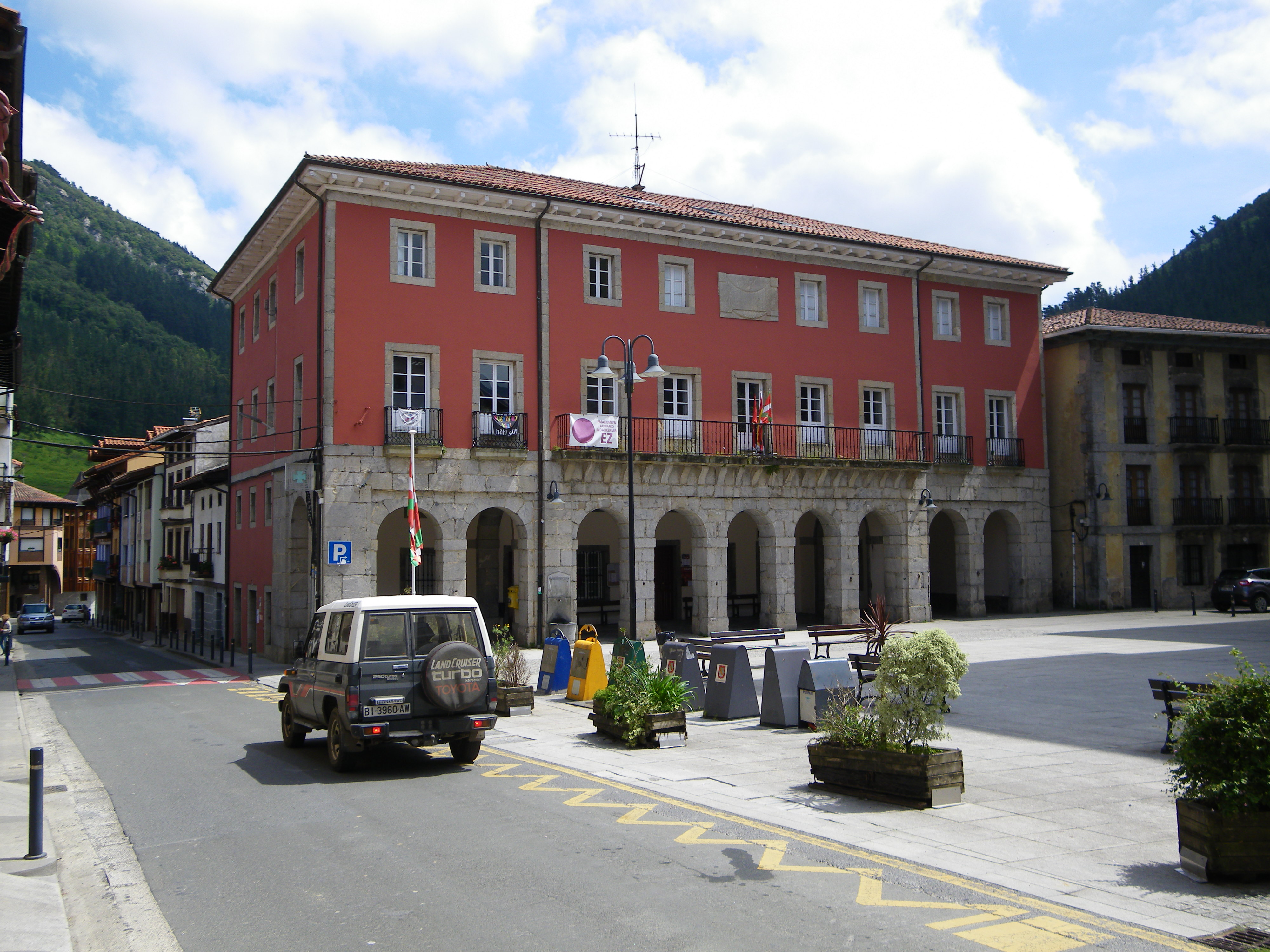 Town hall of Aulesti, Donibane enparantza, Aulesti, Lea-Artibai, Biscay, Basque Country.